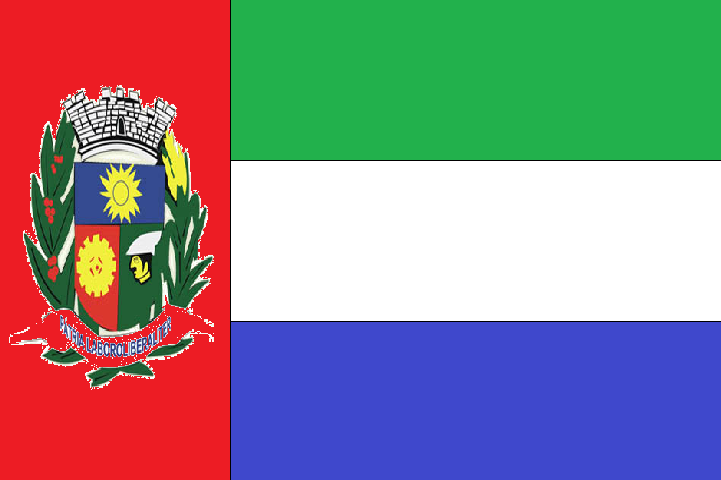 Flag of Mirassolândia, state of São Paulo, Brazil. This work is in the public domain in Brazil for one of the following reasons: It is a work published or commissioned by a Brazilian government (federal, state, or municipal) prior to 1983.(Law 3071/1916, art. 662; Law 5988/1973, art. 46; Law 9610/1998, art. 115) It is the text of a treaty, convention, law, decree, regulation, judicial decision, or other official enactment.(Law 9610/1998, art. 8) This image shows a flag, a coat of arms, a seal or some other official insignia. The use of such symbols is restricted in many countries. These restrictions are independent of the copyright status.